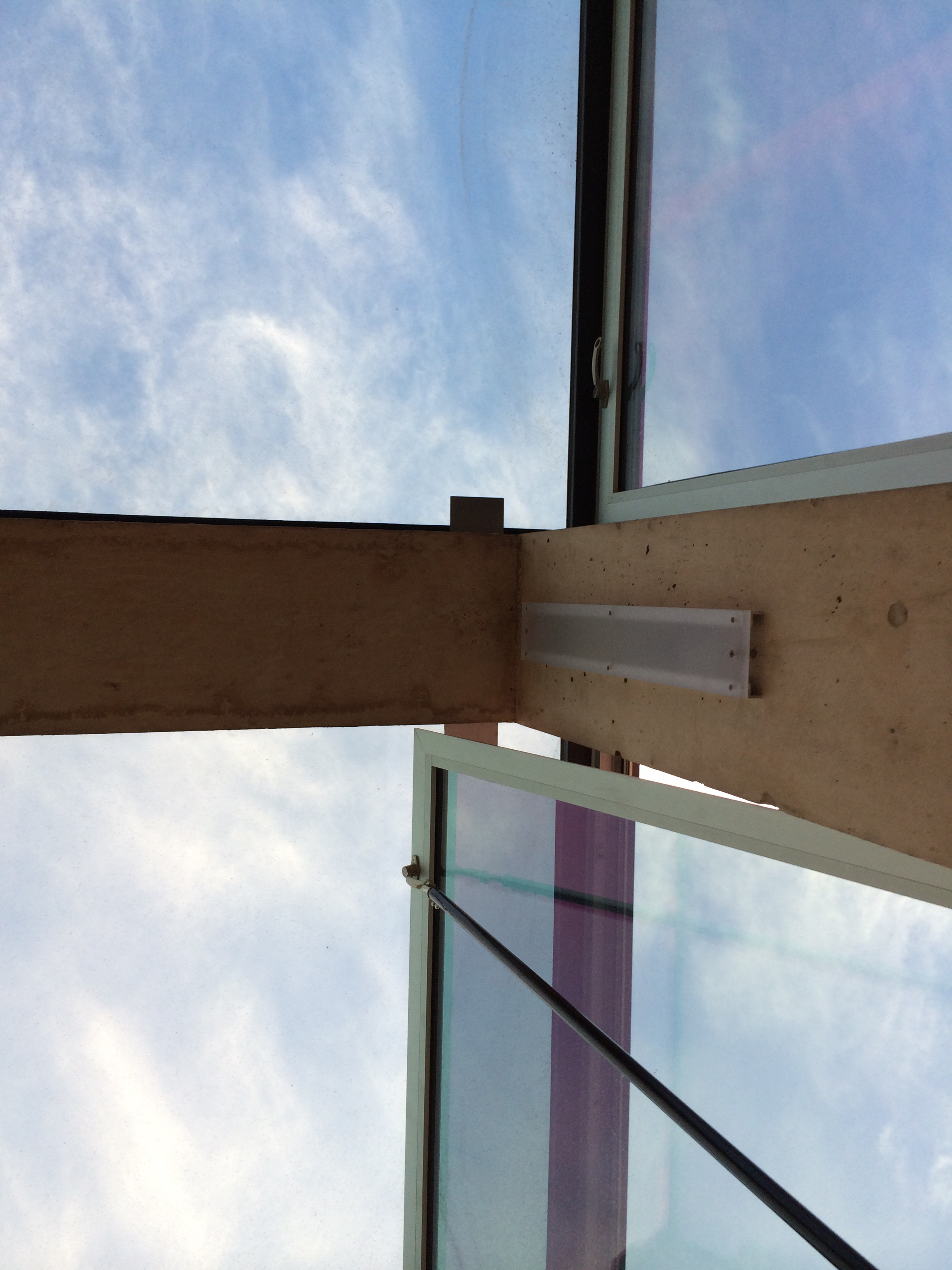 102 University Ave. Palo Alto, CA Designed by Joseph Bellomo Architects